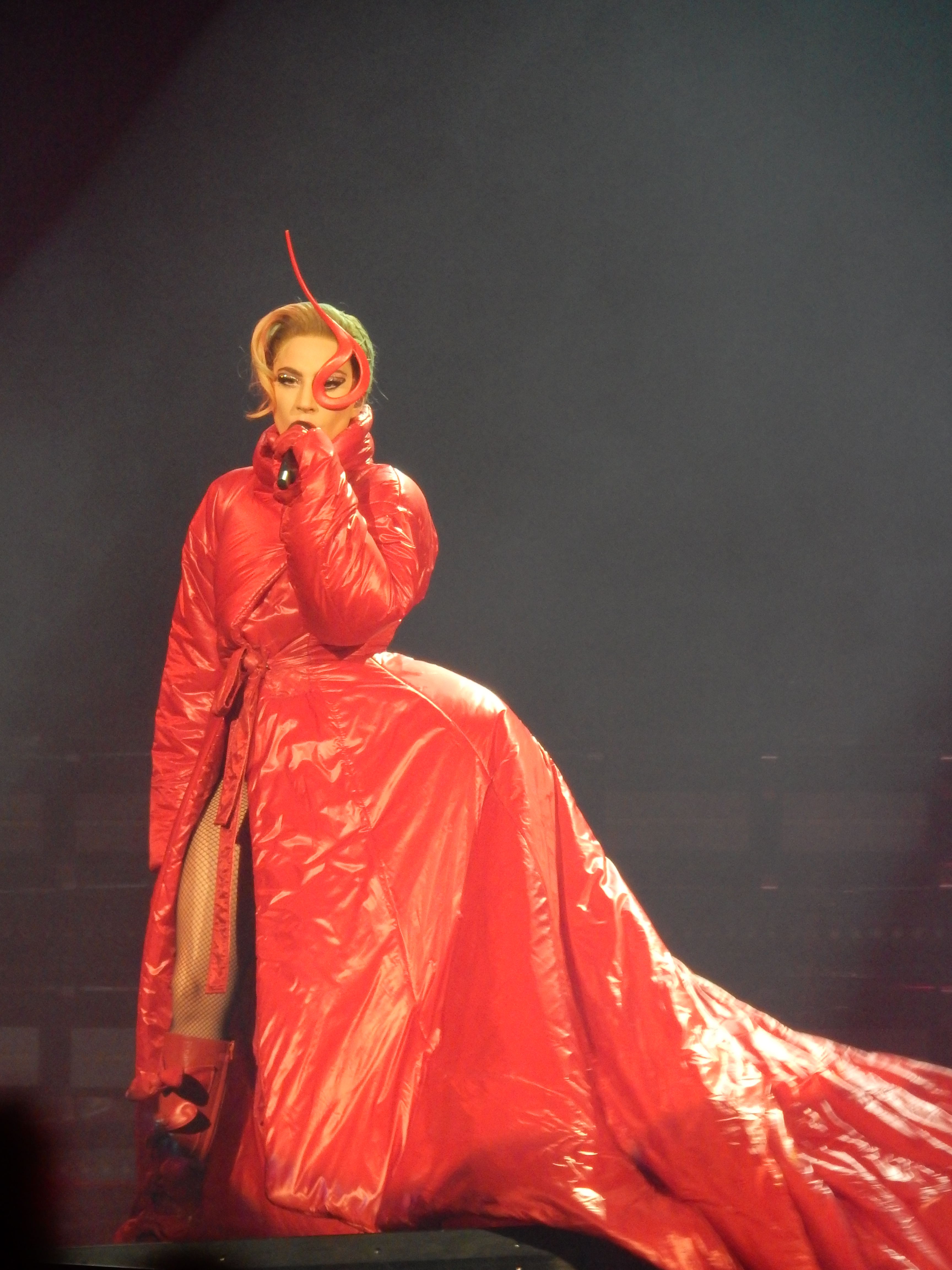 Lady Gaga performing at Arena Birmingham for the Joanne World Tour, January 31st 2018 Lady Gaga performing at Arena Birmingham for the Joanne World Tour, January 31st 2018